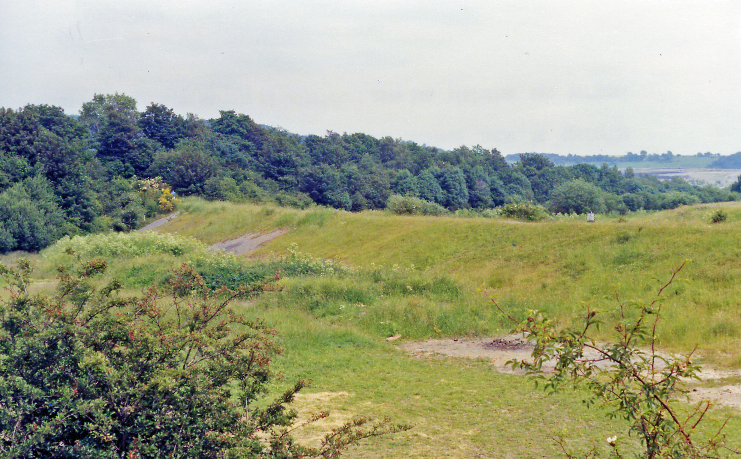 Site of Denaby station, 1992. View southward, towards Edlington (Doncaster) and Black Carr: ex-Lancashire & Yorkshire Wakefield - Grimethorpe - Edlington (Doncaster) - Black Carr Junction line. Denaby was a Halt on a mineral line which had a passenger service to Edlingon until 10/9/51, the line lasting until 11/7/66.